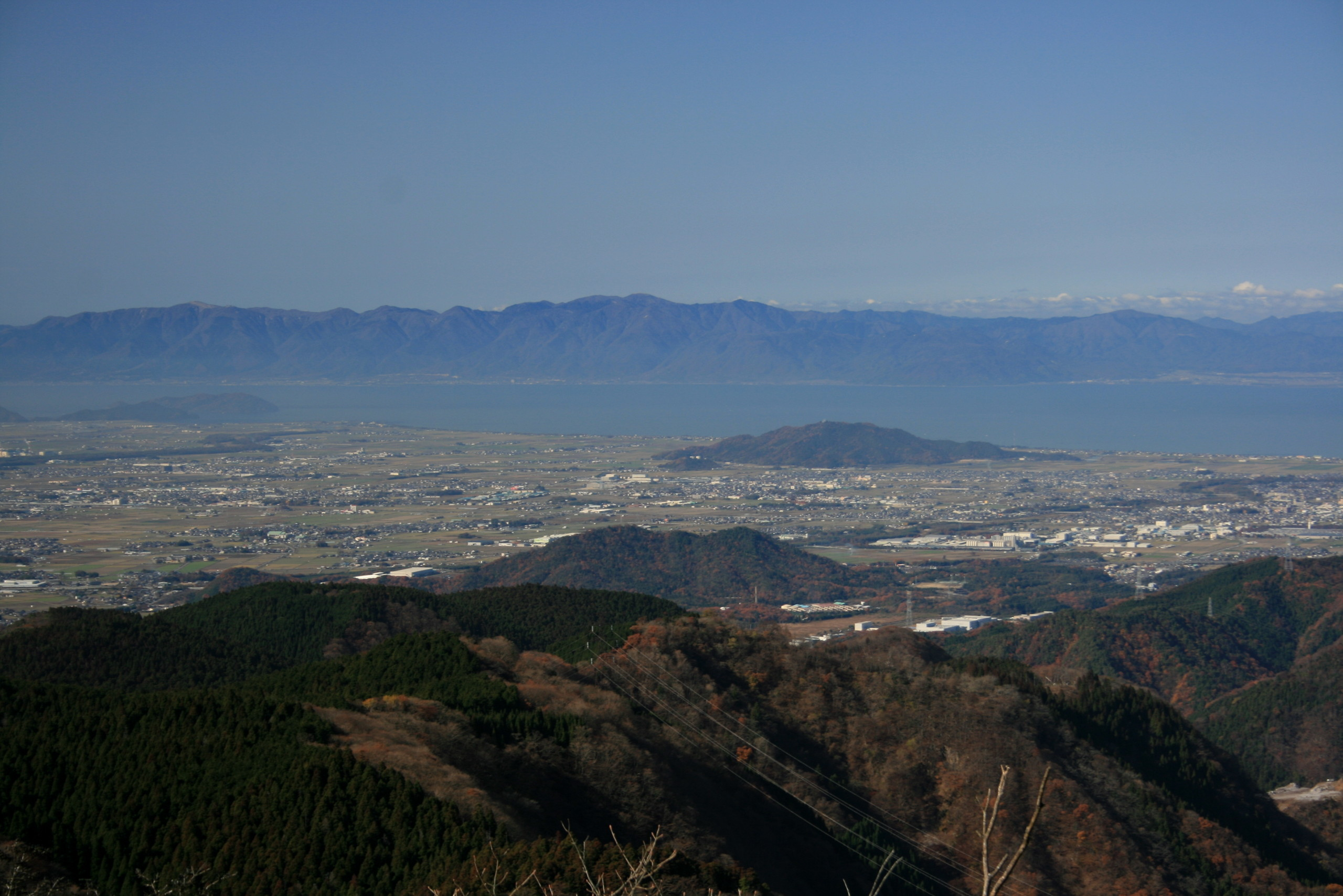 Mount Kojin and Lake Biwa, in Shiga Prefecture, Japan.